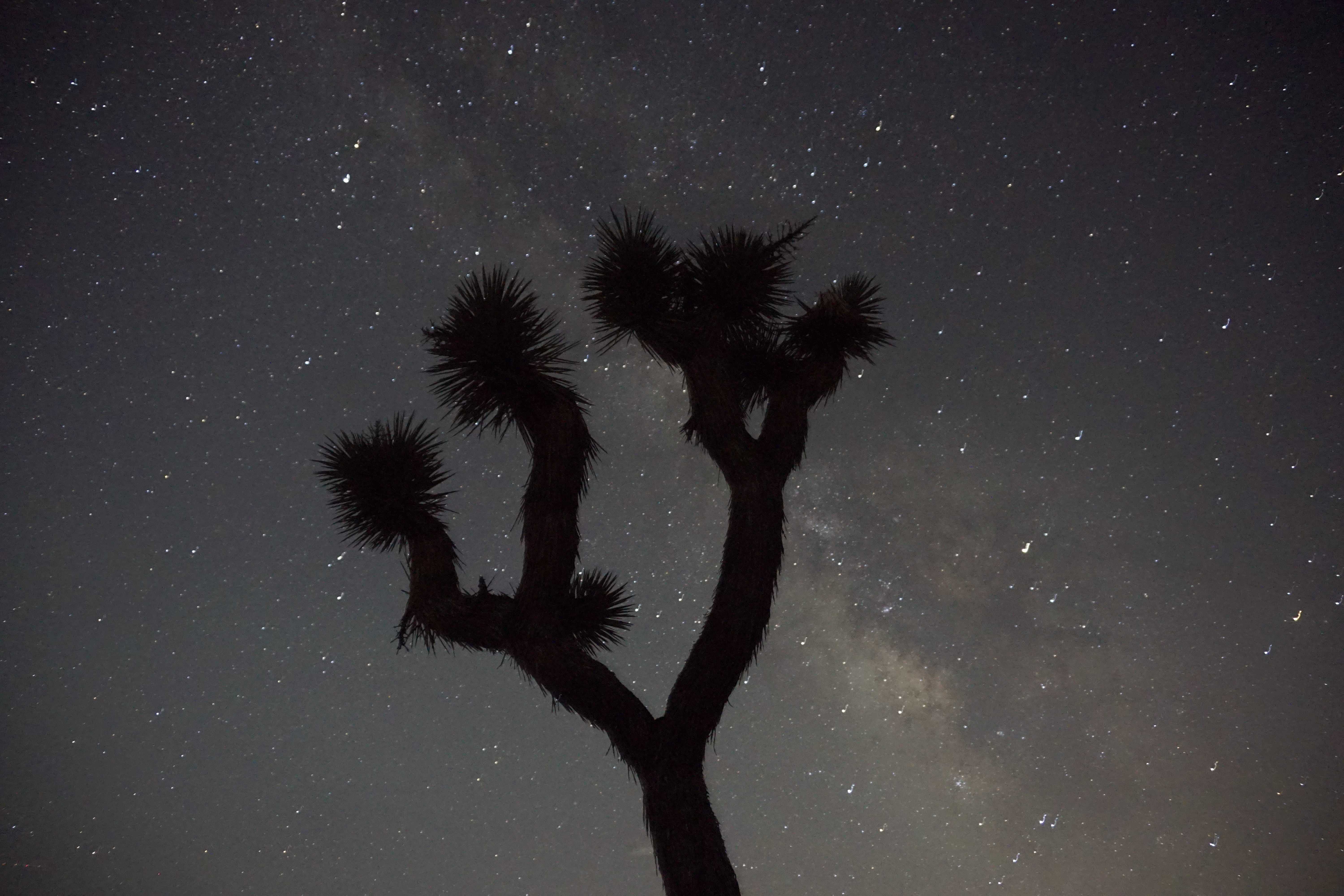 Joshua Tree National Park, July 2017, picked up Military pass from NPS at Grand Canyon, might as well check out some more parks on my road trip, pretty good infrastructure, but they had a bee infestation due to a lack of water.